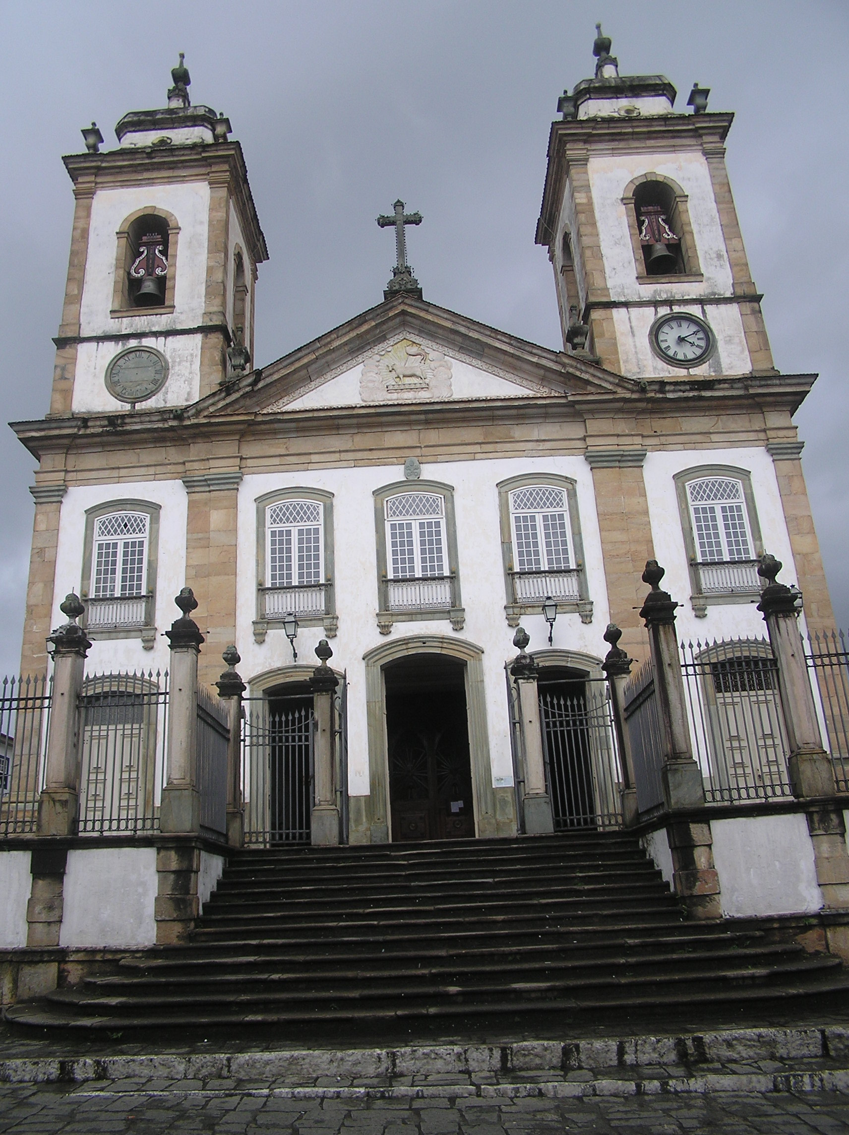 Cathedral, the Basilica of Nossa Senhora do Pilar in São João del Rei. The gold of about 280 kg is used for the decolation of this cathedral. I hear it is a church that uses a lot of gold 4thly in Brazil.